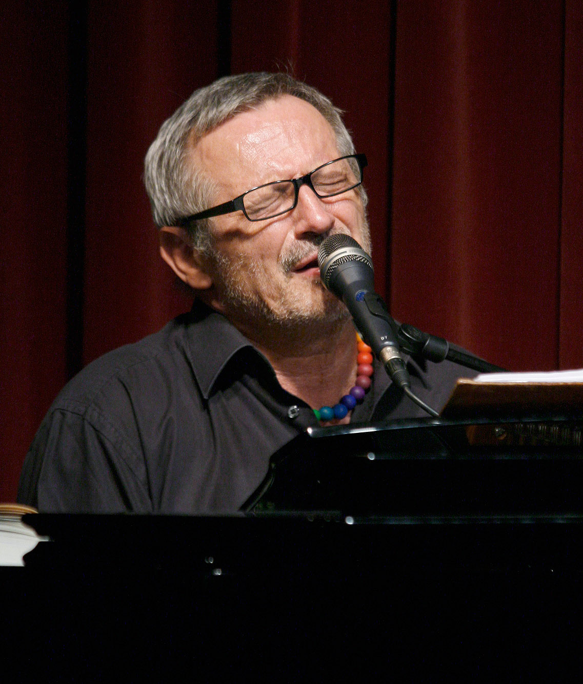 Concert and reading of Konstantin Wecker at the Rote Bar (red bar) of the Volkstheater in Vienna, a charity event for the United Nations Children's Fund (UNICEF)